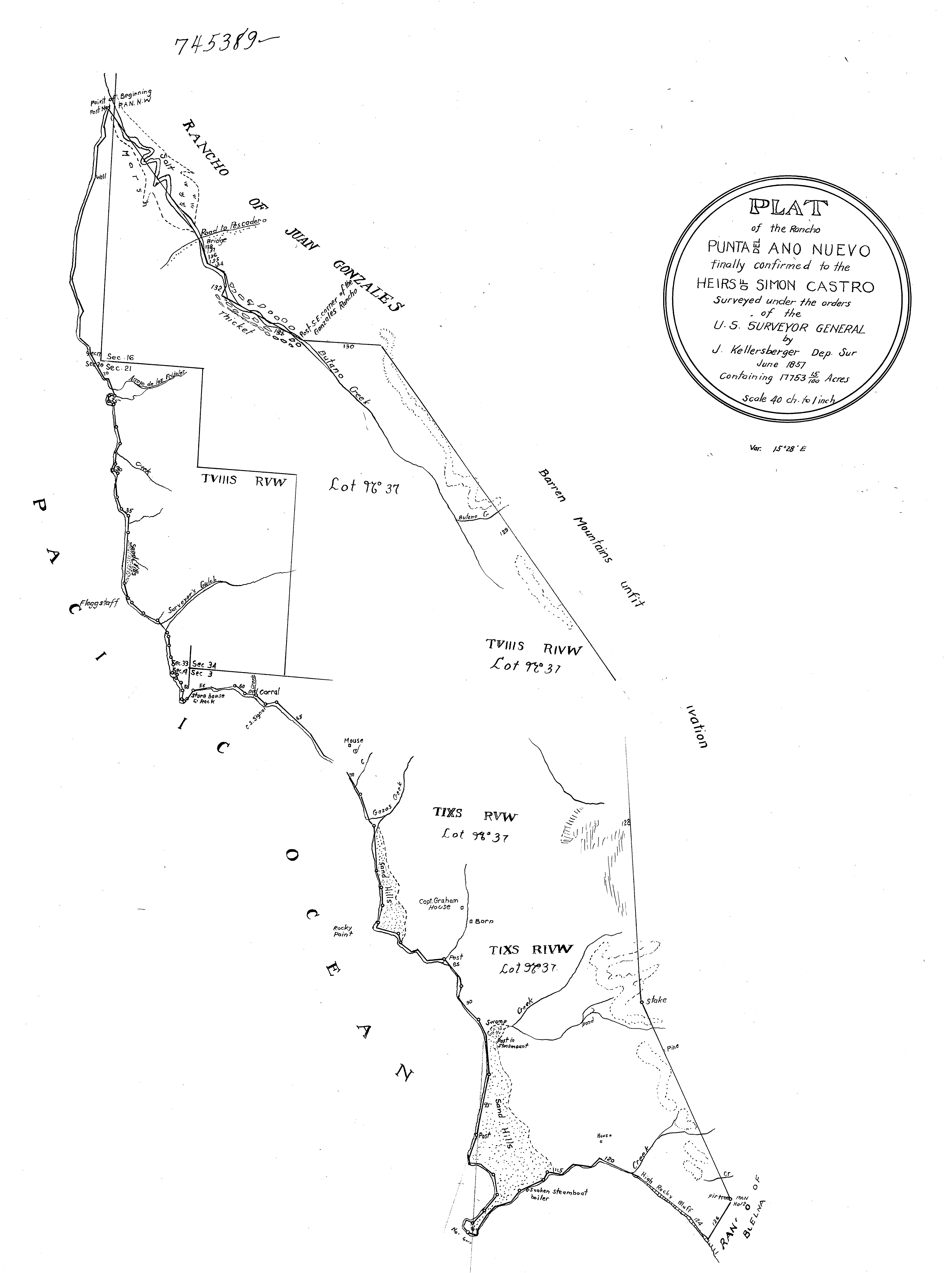 As required by the Land Act of 1851, a claim for Rancho Punta del Año Nuevo was filed with the Public Land Commission in 1852, and the grant was patented to Maria Antonia Pico de Castro and heirs of Simeon Castro in 1857.